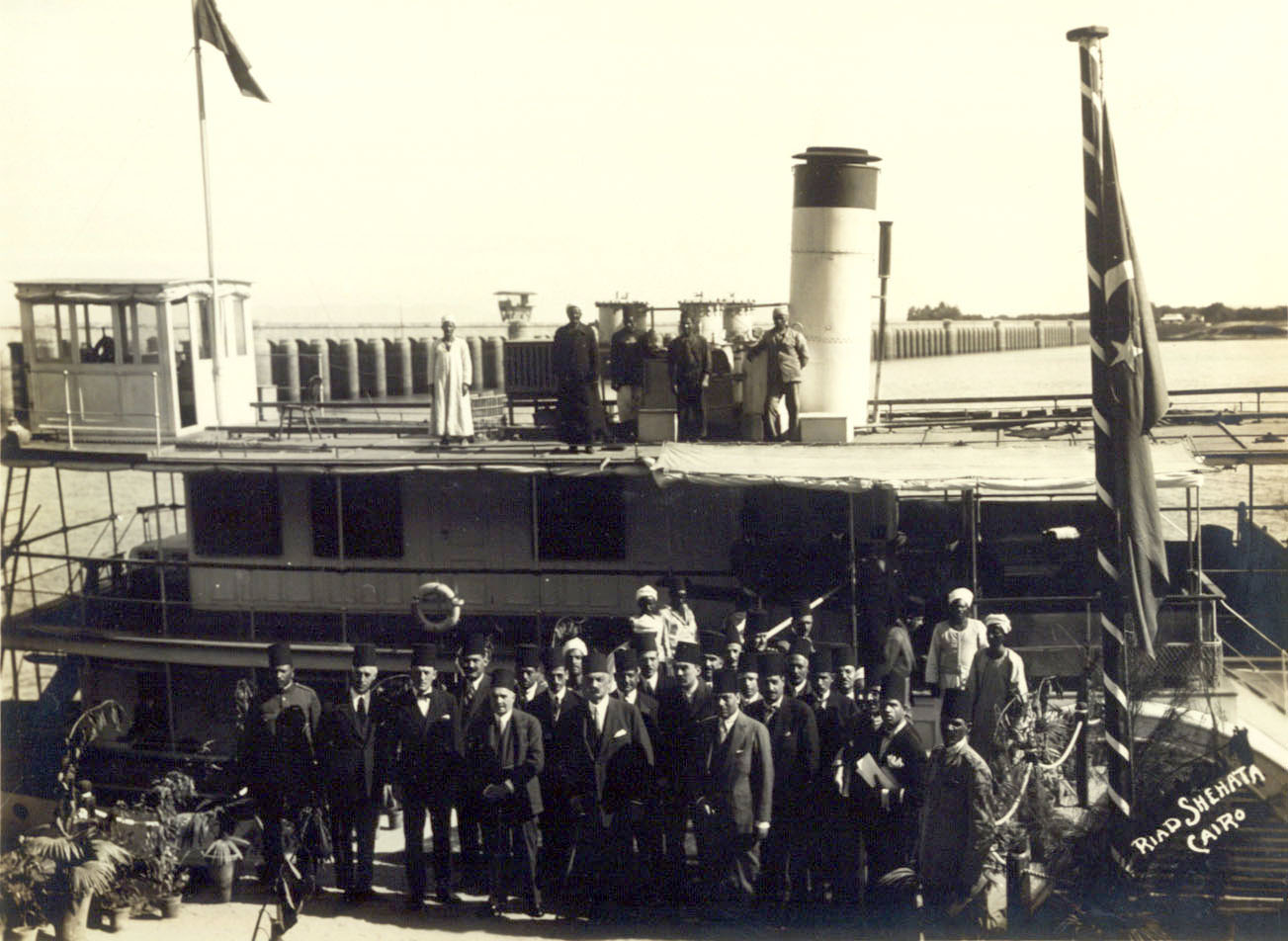 Adli Yakn Pasha left of Mohamed Mahmoud Pasha, in front of the ship Mahasin the moment they arrived at the Essna Shipyard.